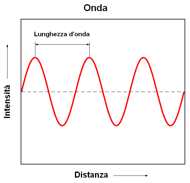 wavelength.